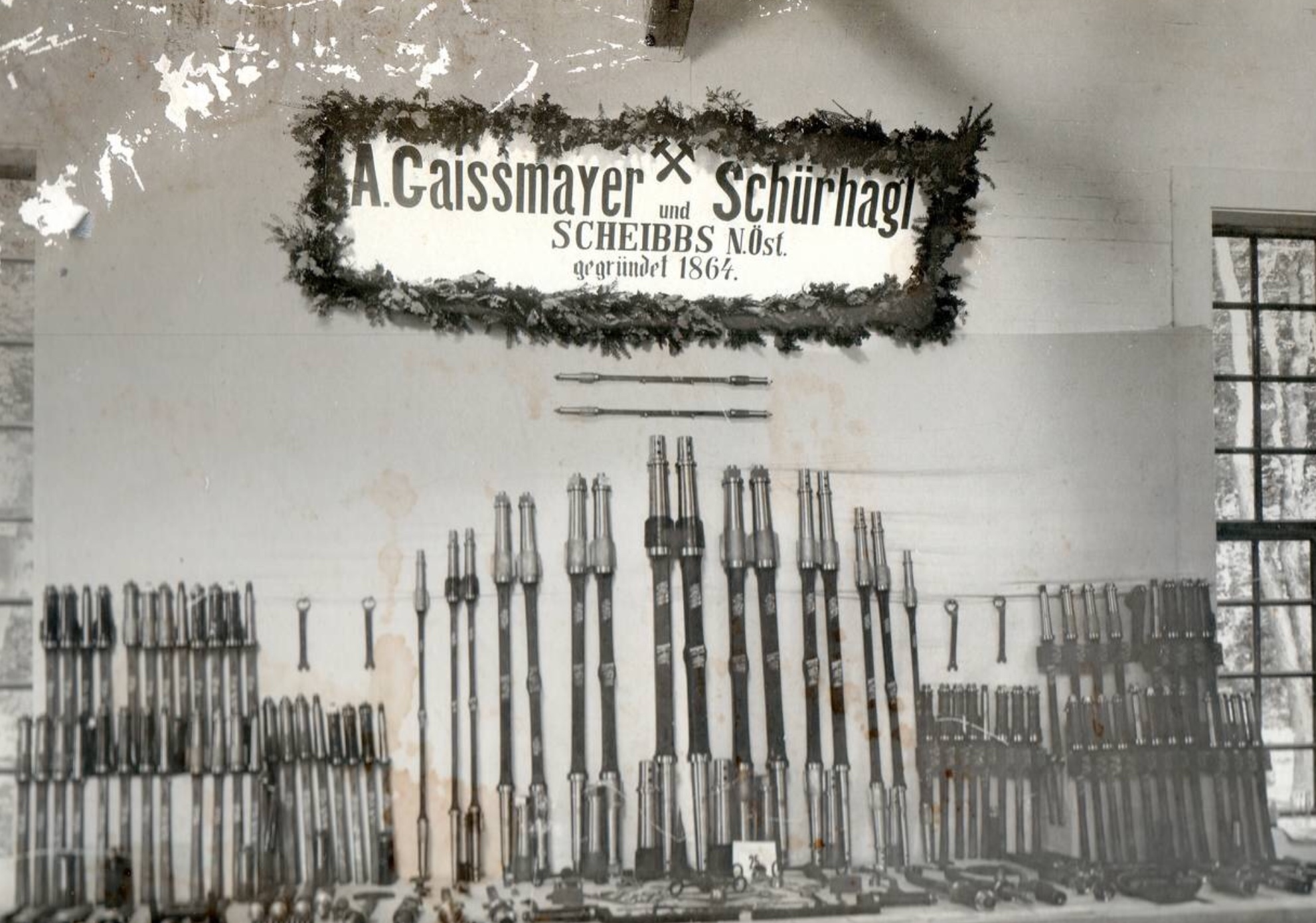 Wagenachsen Gaißmayer & Schürhagl